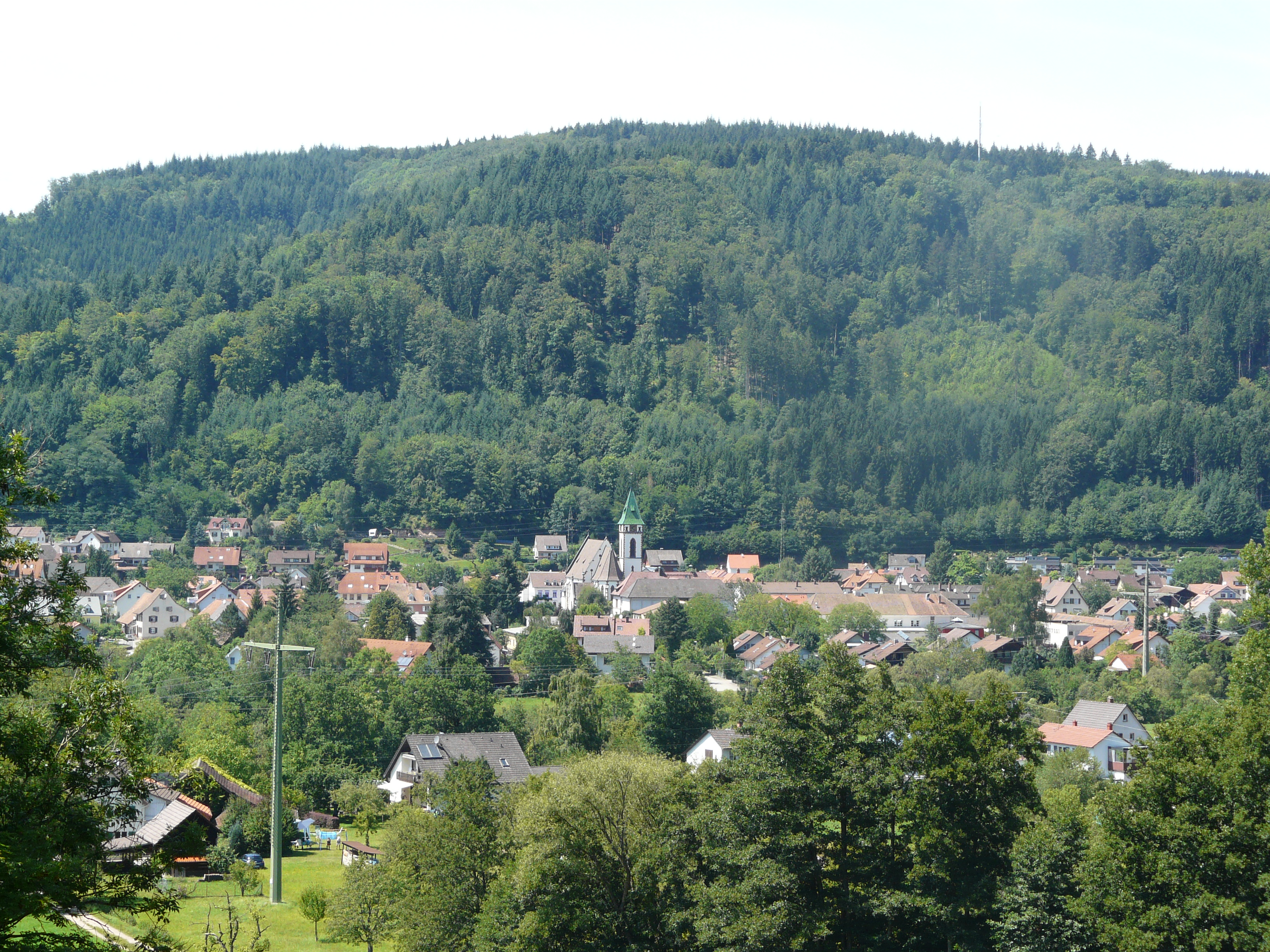 Middle and Northern part of Hausen im Wiesental. Picture taken below Raitbach